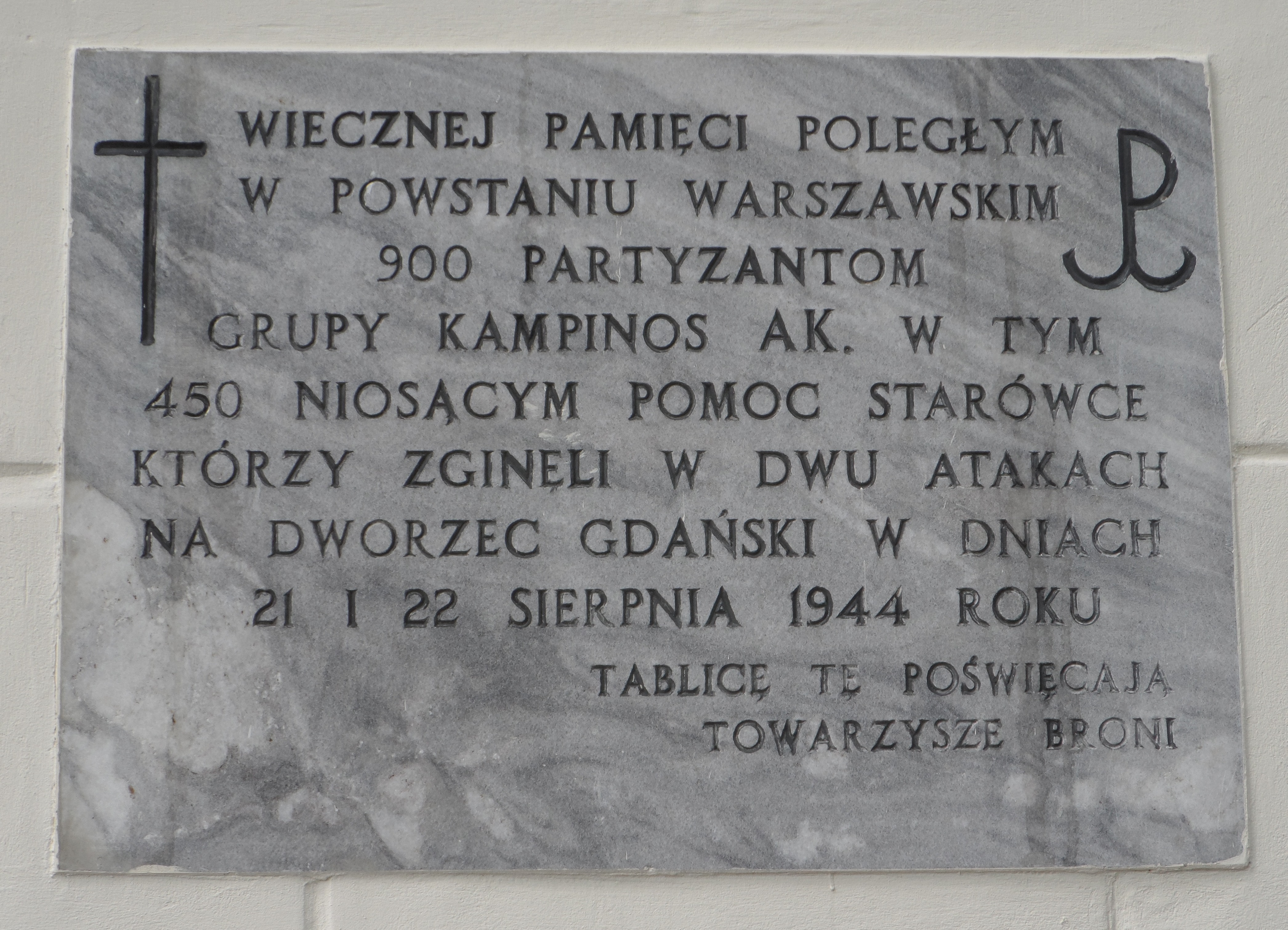 Plaque at the wall of the St. Mary Magdalene Church in Warsaw (Wawrzyszew), commemorating almost 900 soldiers of Home Army’s Kampinos Group (Grupa AK “Kampinos”) who fell during the Warsaw Uprising, especially almost 450 who were killed during the two assaults on Dworzec Gdański railway station.